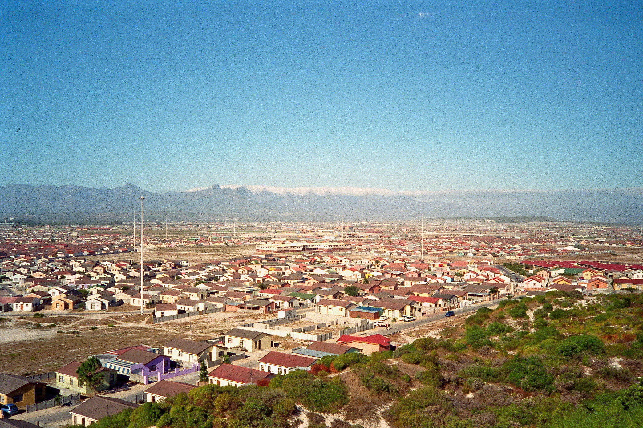 View from Khayelitsha Lookout Hill over Ilitha Park